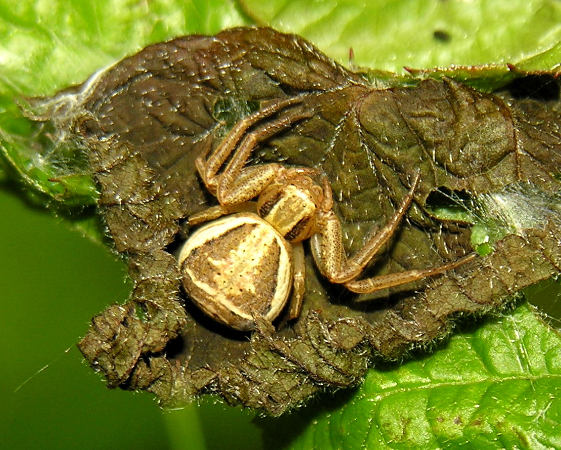 This image was copied from lt. The original description was: Krabvoris (Xysticus ulmi) Foto: Algirdas, 2006 m. birželio 8 d., Lietuva